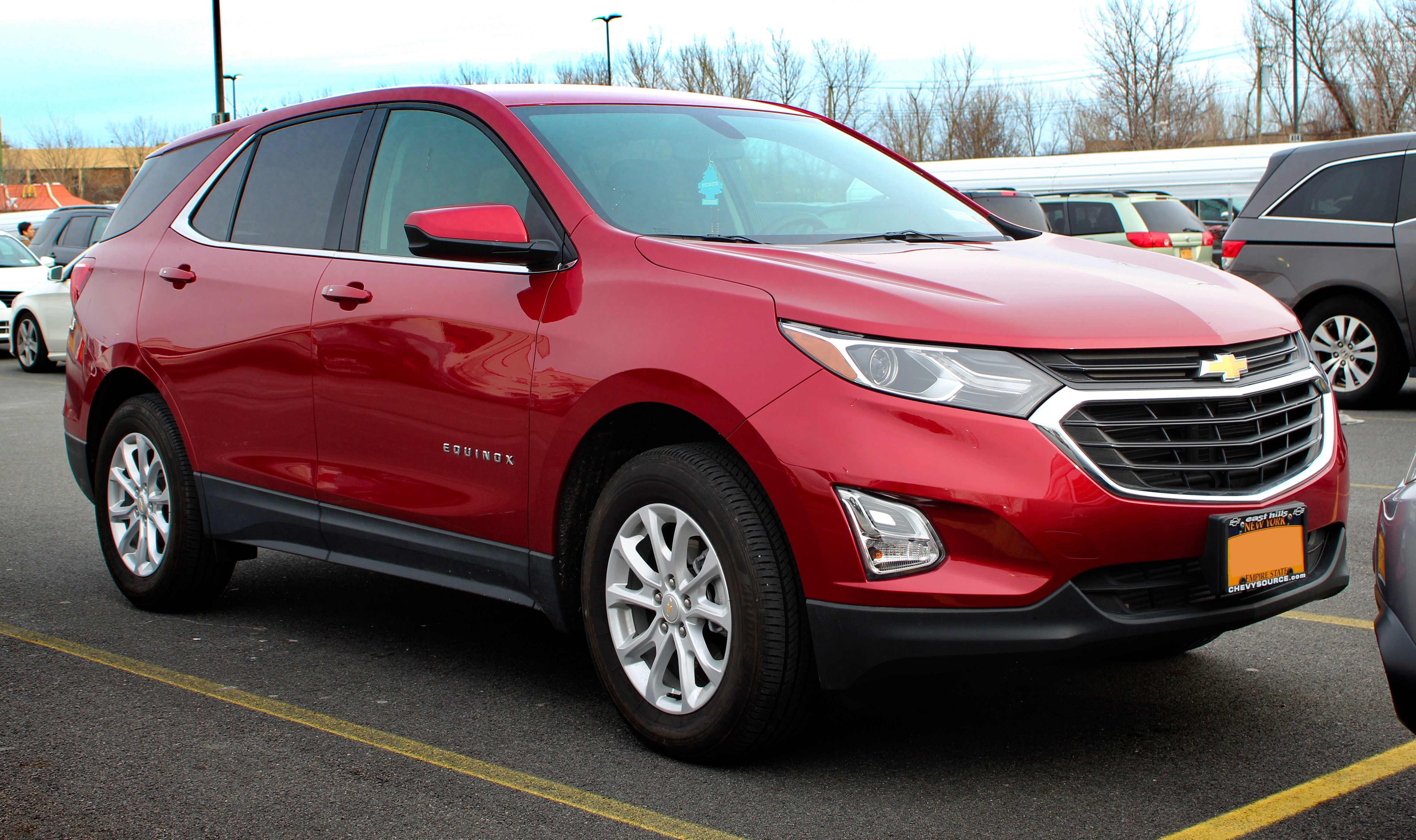 A 2018 Chevrolet Equinox LT photographed in College Point, Queens, New York, USA